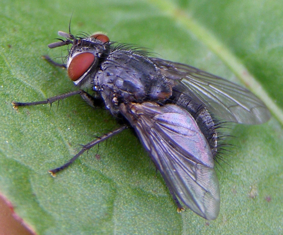 A female Pales pavida (Diptera: Tachinidae). Identification confirmed by Theo Zeegers here